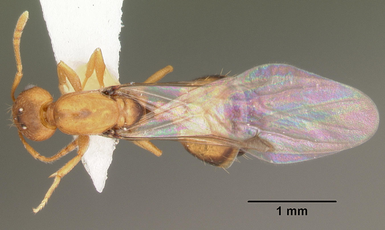 Dorsal view of ant Monomorium pharaonis specimen casent0104094.